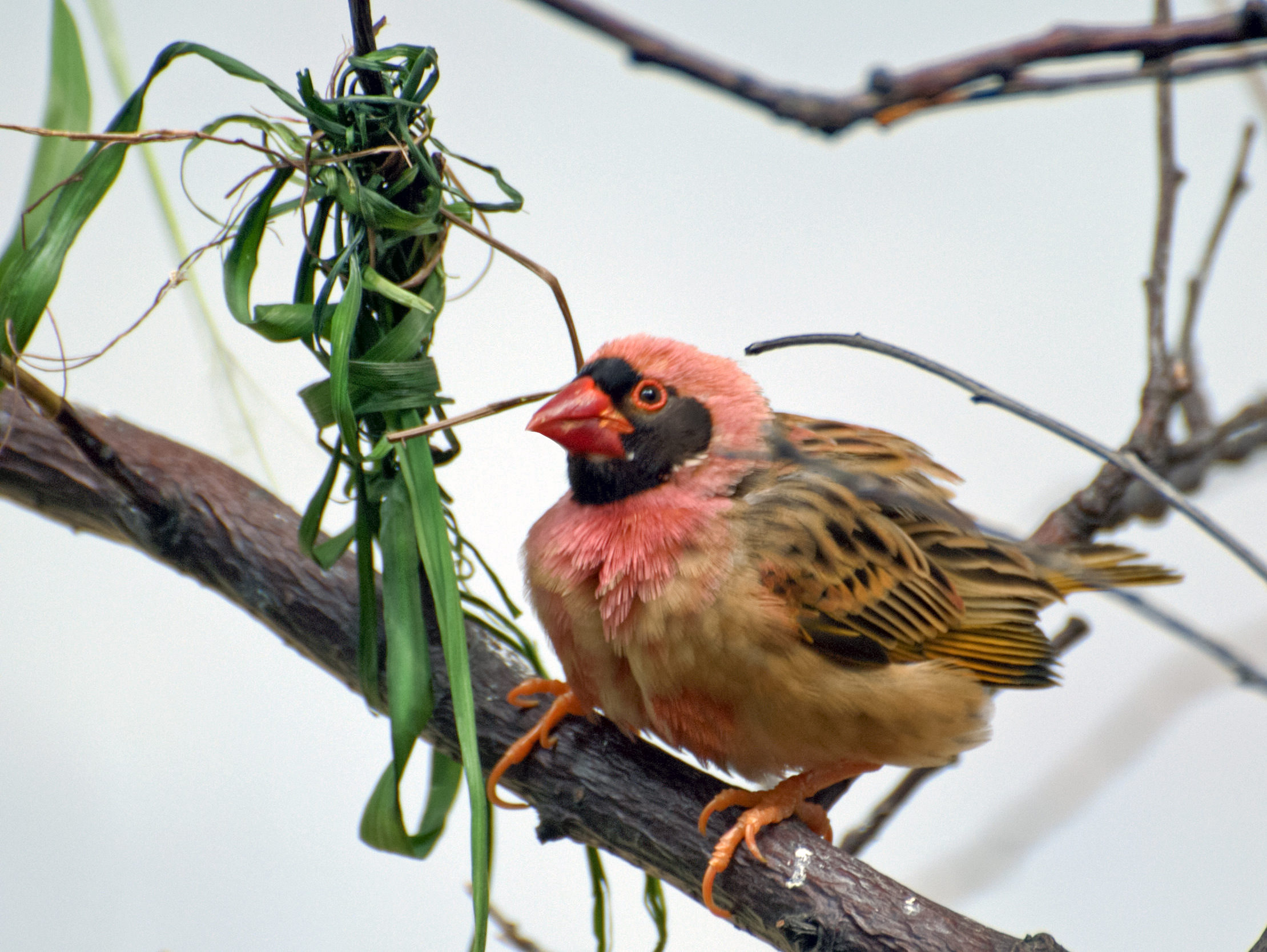 An adult male Red-billed Quelea in Warsaw Zoo, Poland.